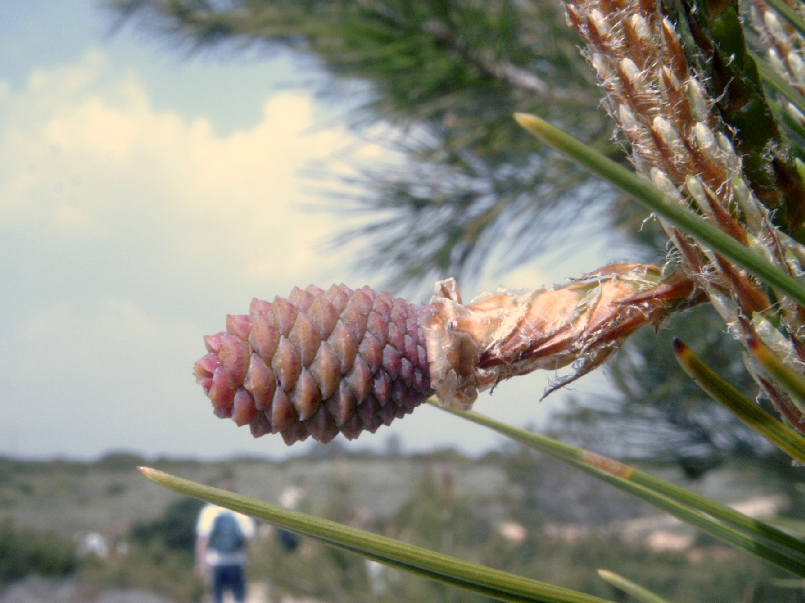 Pinus pinaster, first-year cone